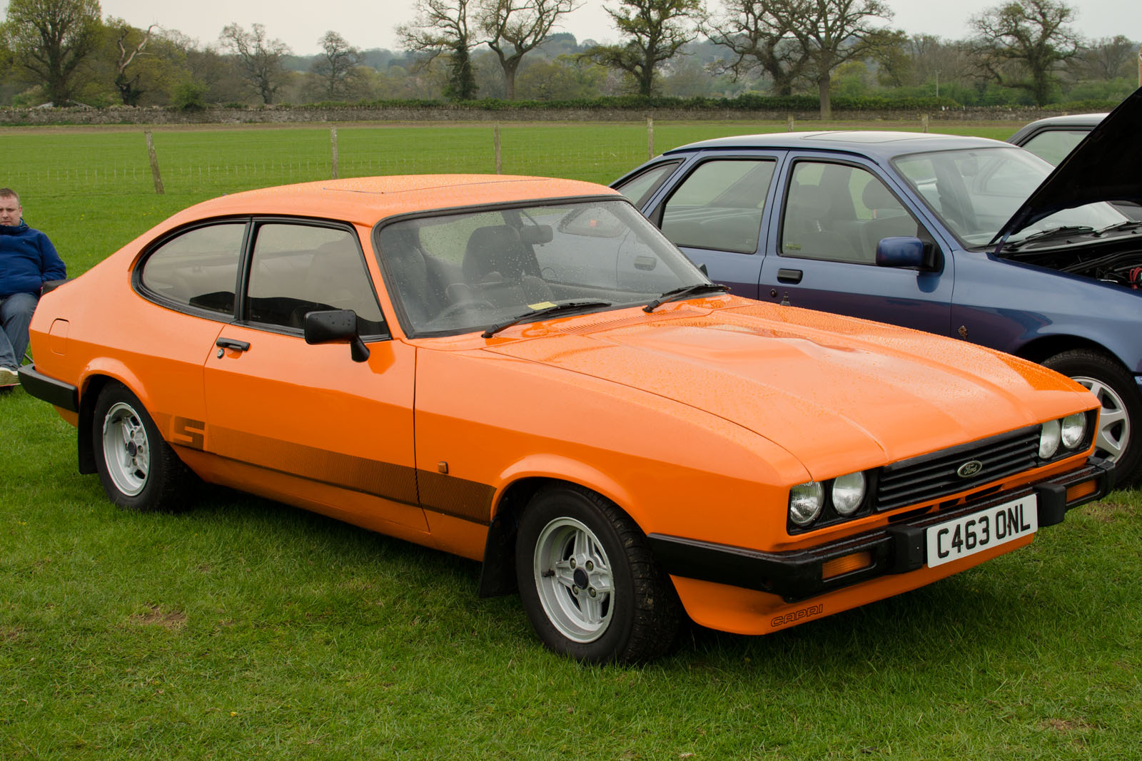 St Asaph Classic Car Show 20/04/2014